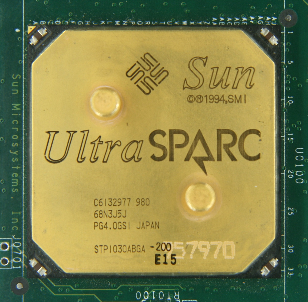 IC photo